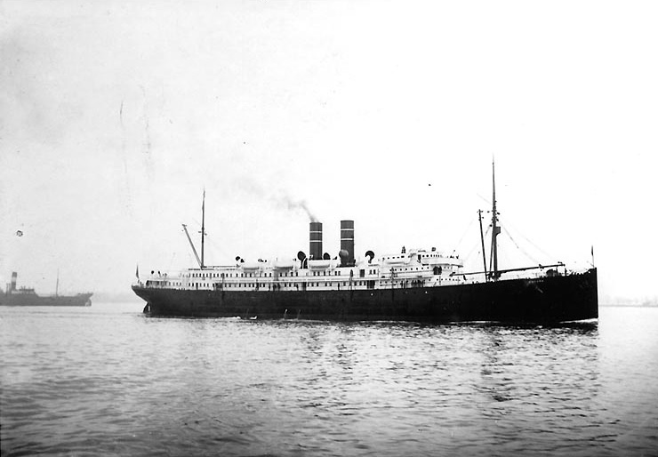 The Ward Line (New York & Cuba Mail Steam Ship Co.) passenger ship SS Havana underway prior to World War I.Initially taken over by the U.S. Army for wartime service as USAT Havana, she was acquired by the U.S. Navy on 19 July 1917 and converted to a hospital ship. Commissioned as USS Comfort (AH-3) on 18 March 1918, she was laid up at the Mare Island Navy Yard in 1919, stricken on 26 May 1924 and sold on 1 April 1925.The former hospital ship was repurchased by the Ward Line in 1927, who refitted her and placed her back in service on the Havana route under her original name of Havana. In January 1935, Havana grounded on a reef north of The Bahamas and remained there for three months. After being refloated and repaired, she was placed back in service as SS Yucatán in June. In 1940 the ship was removed from passenger service to be converted into a freighter. After capsizing in port in 1941, the ship was again refloated and renamed SS Agwileon. Under a bareboat charter by the United States Maritime Commission, Agwileon carried civilian technicians and advisors to Sierra Leone for the U.S. Army. In November 1942, the ship was taken over by the Army as USAT Agwileon and converted to a troopship, making one trip in that capacity. In June 1943, the ship was selected for conversion to an Army hospital ship, and was renamed USAHS Shamrock. Operating locally in the Mediterranean for most of her career, the ship had transported almost 18,000 patients by September 1944. The ship was converted for use in the Pacific Theatre, but not before the war ended. The ship was placed in reserve in February 1946, and was scrapped in February 1948.